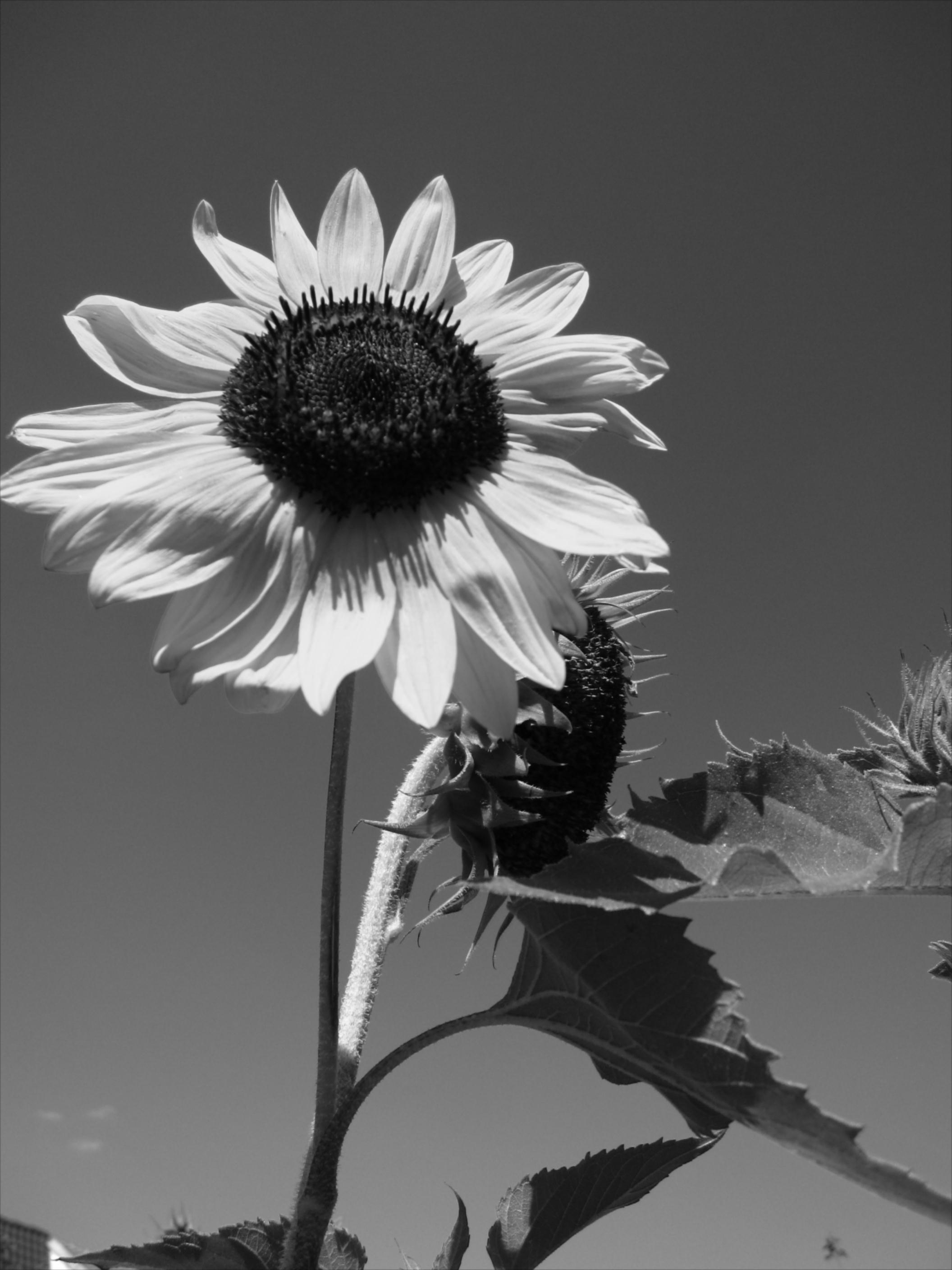 Sun flower picture smoothed with Deriche IIR filter withat parameter aplha = 2